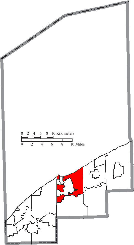 Map of the municipal and township boundaries of Lake County, Ohio, United States, as of the 2000 census, with the location of Painesville Township highlighted. Township borders are shown only in unincorporated areas in order to differentiate incorporated and unincorporated areas more clearly.